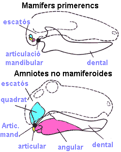 Simple diagram of mammalian and non-mammalian jaw-joints, tags in Catalan.